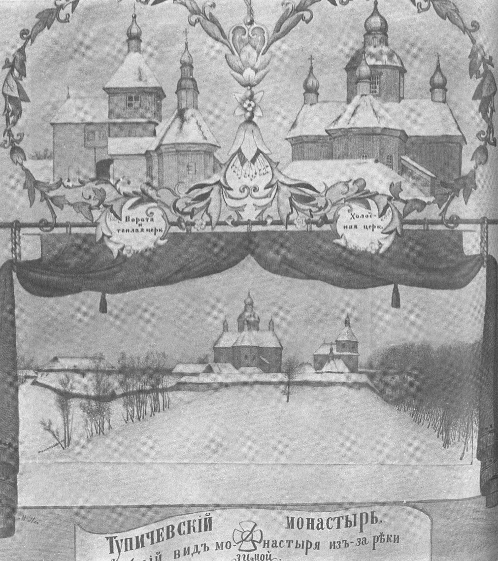 Monastery of the Holy Spirit in Amścisłaŭ